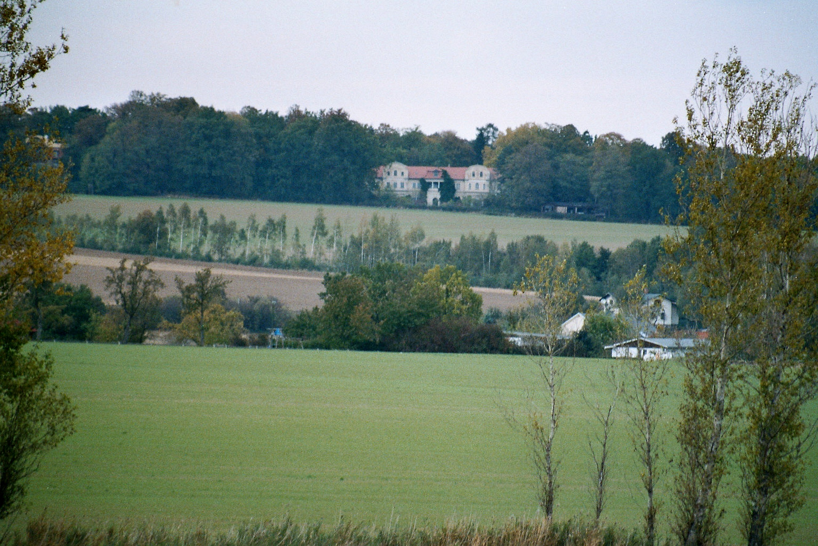 Löbichau- view from Posterstein to the Tannenfeld château (telephoto)